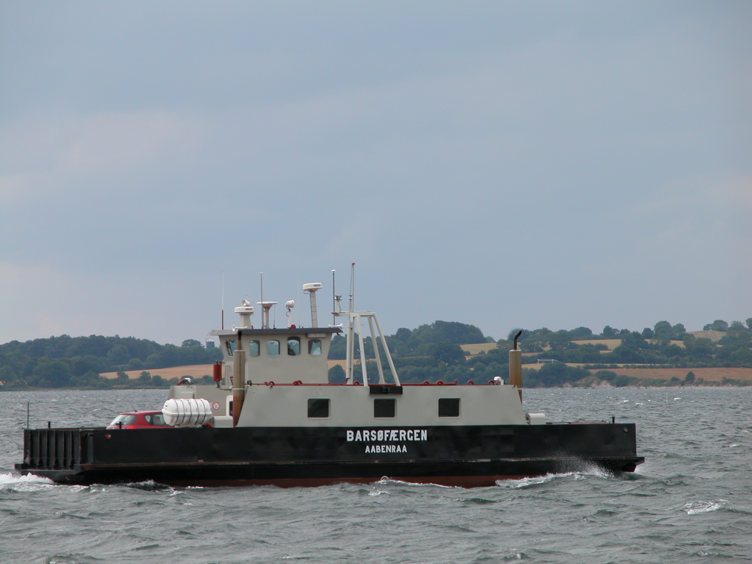 The ferry from Jylland to Barsø